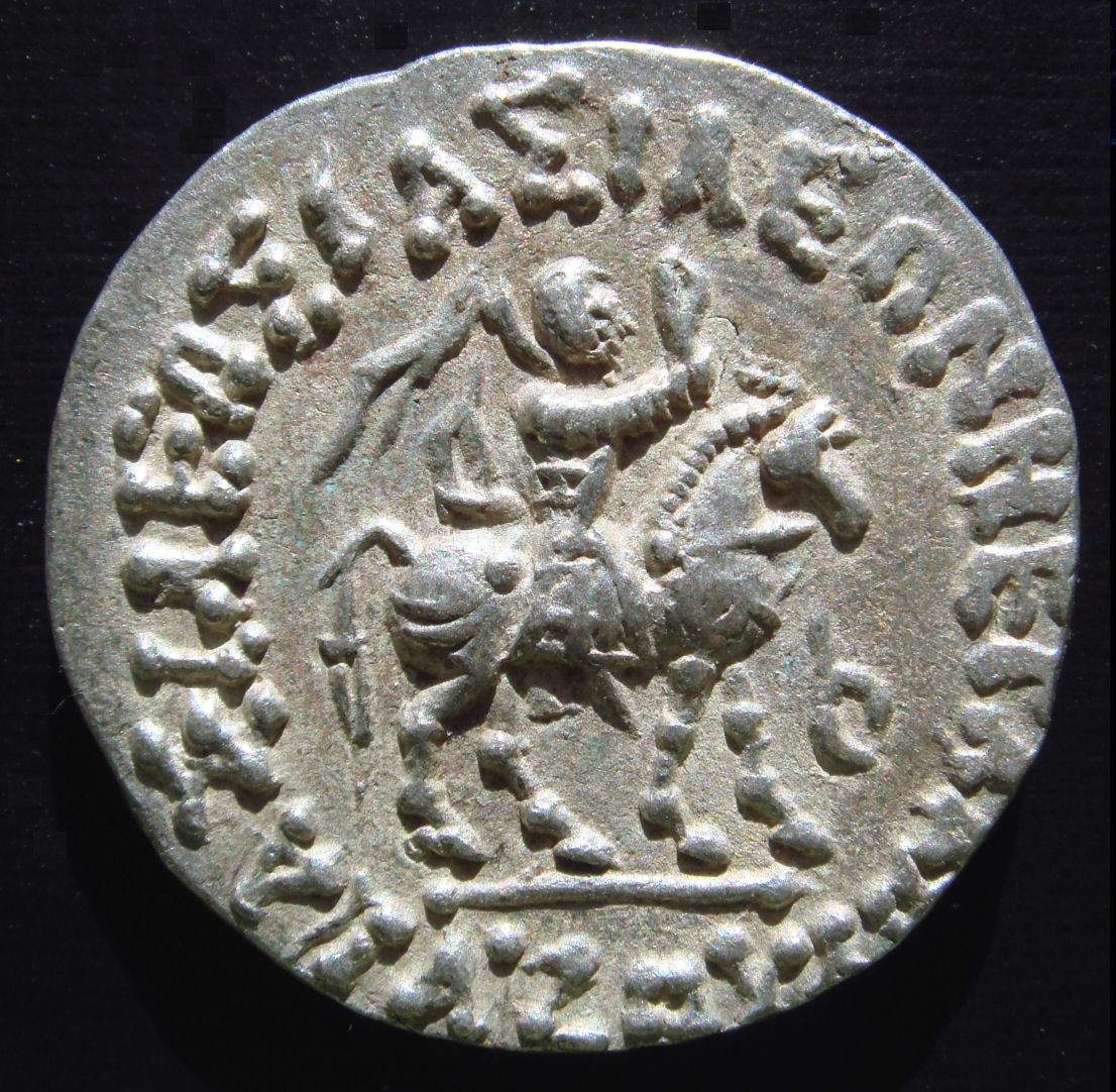 Coin of Azes II